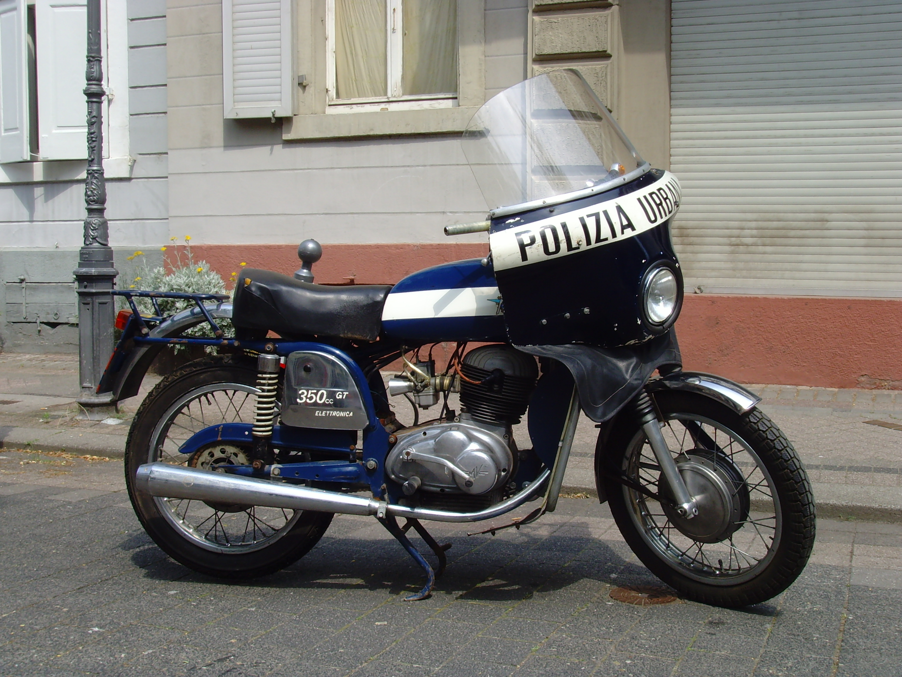 MV Agusta 350 GT (1970-1974)